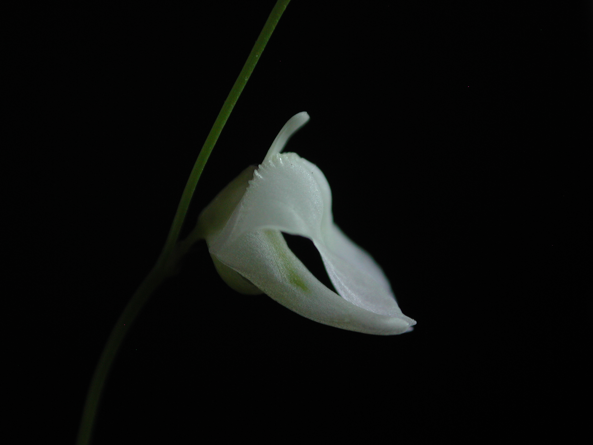 Utricularia livida - flower of plant living in culture